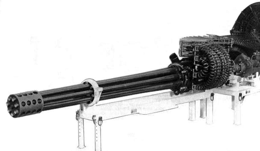 Contrast-enhanced version of Image:GAU-8_Avenger.jpg